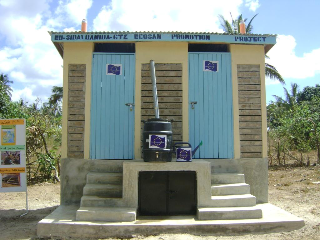 A new UDDT was constructed at the school which was the venue for the world water day